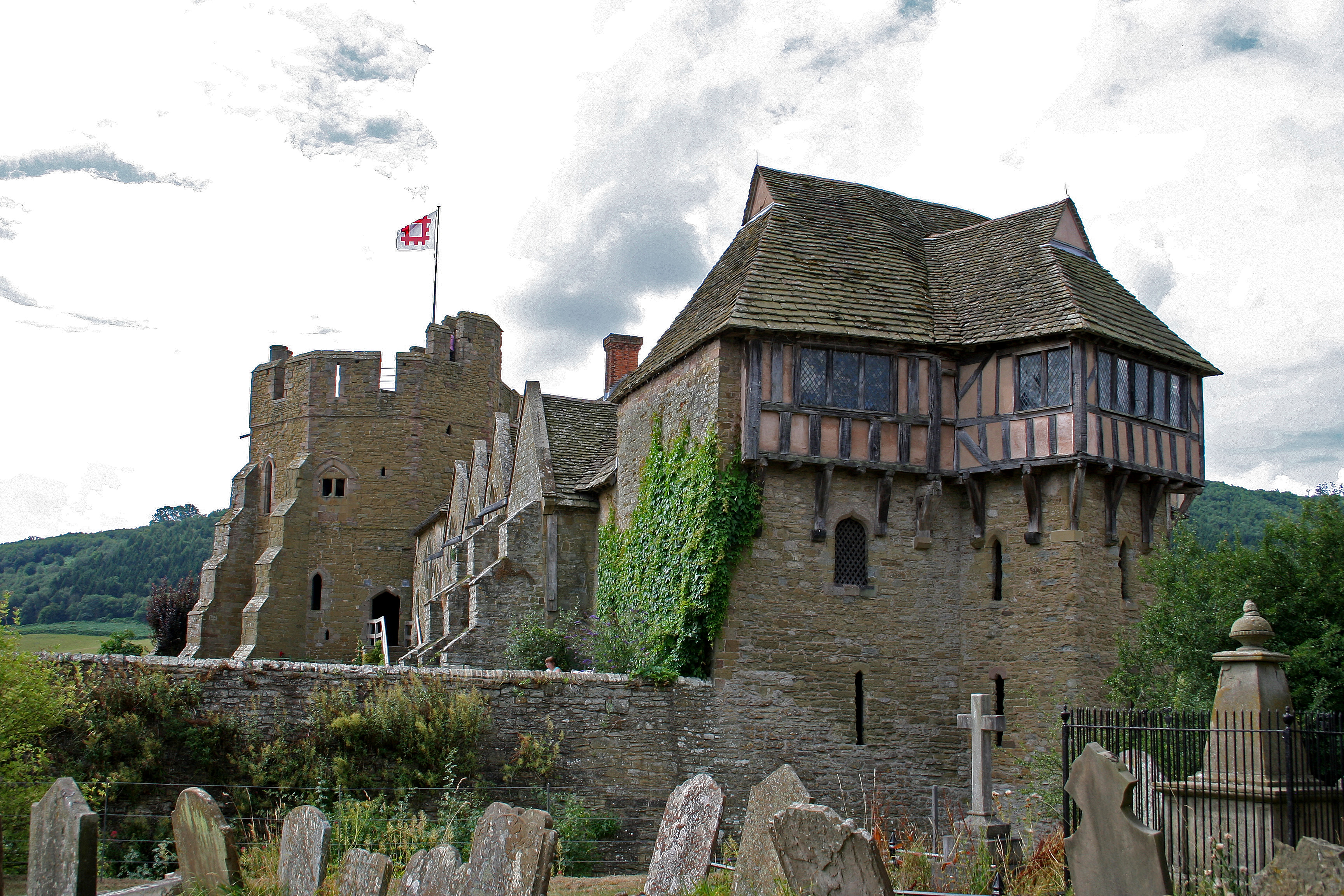 The exterior of Stokesay Castle.